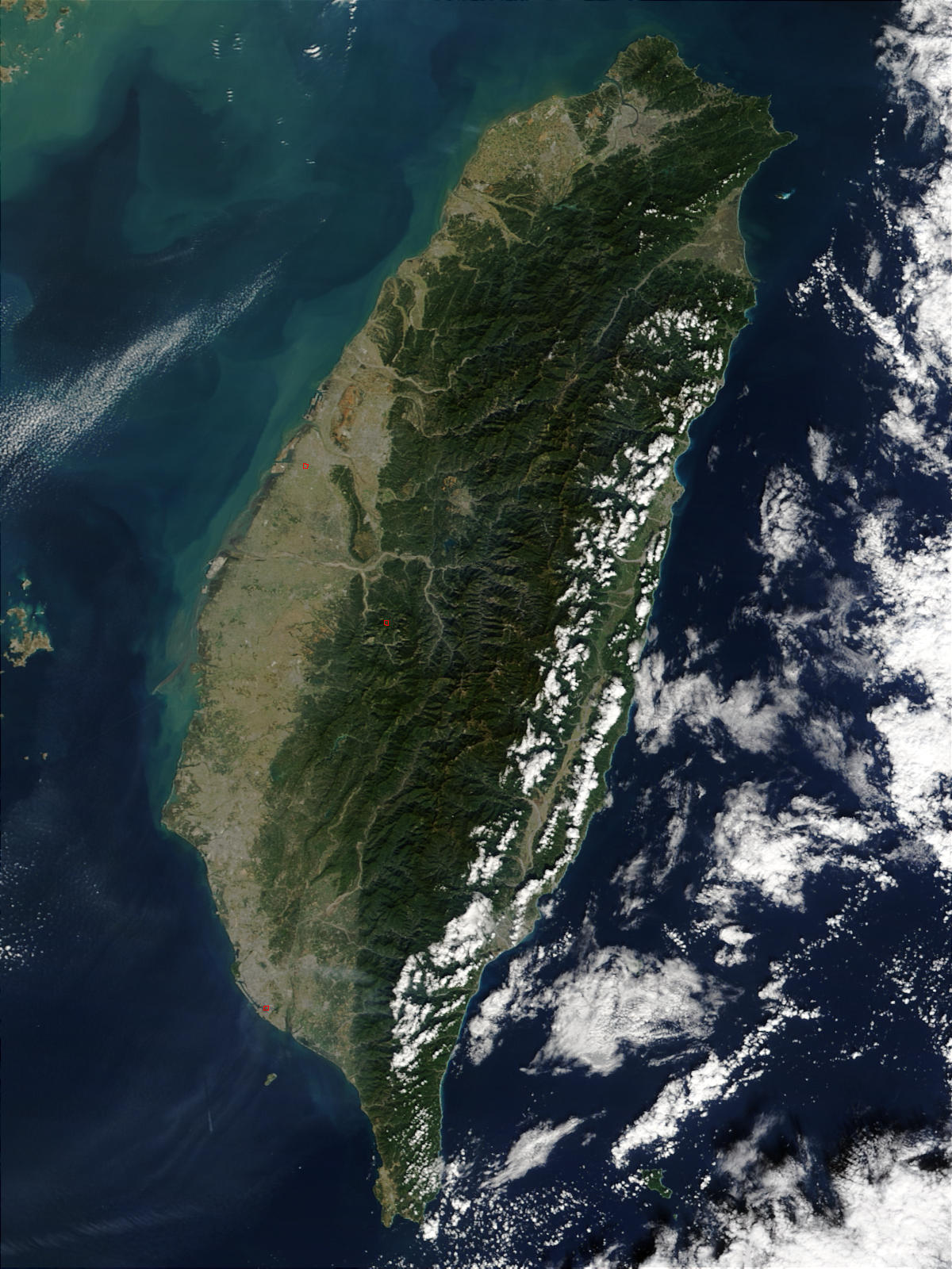 Satellite photo of Taiwan. Description by NASA: "The island of Taiwan sits off of the coast of southern China between the East China Sea, the South China Sea, southwestern Japan's Nansei-shoto Islands, and the Pacific Ocean. The island is mostly mountainous in the east, but gradually transitions to gently sloping plains in the west. At the northern tip of the island is Taiwan's capital city, Taipei, which appears as a large grayish patch surrounded by dark green. In this image, most of Taiwan's eastern coast is dotted with low clouds, with low and high clouds off the coast in the Pacific Ocean. MODIS also detected three fires, which are marked in red. This true-color Terra MODIS was acquired December 15, 2002."Bân-lâm-gú: Tâi-uân ê uī-tshenn-tôo. 臺灣的衛星圖。